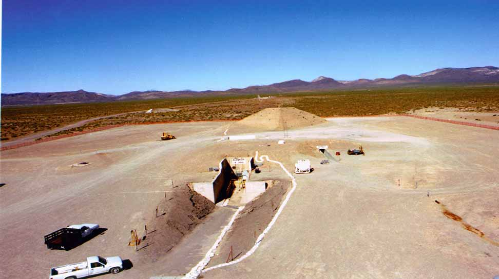 Nevada Test Site, Area 4. Big Explosives Experimental Facility (BEEF), showing the blast berm, which deflects blasts from high explosive detonations on the firing table to the front of the berm.